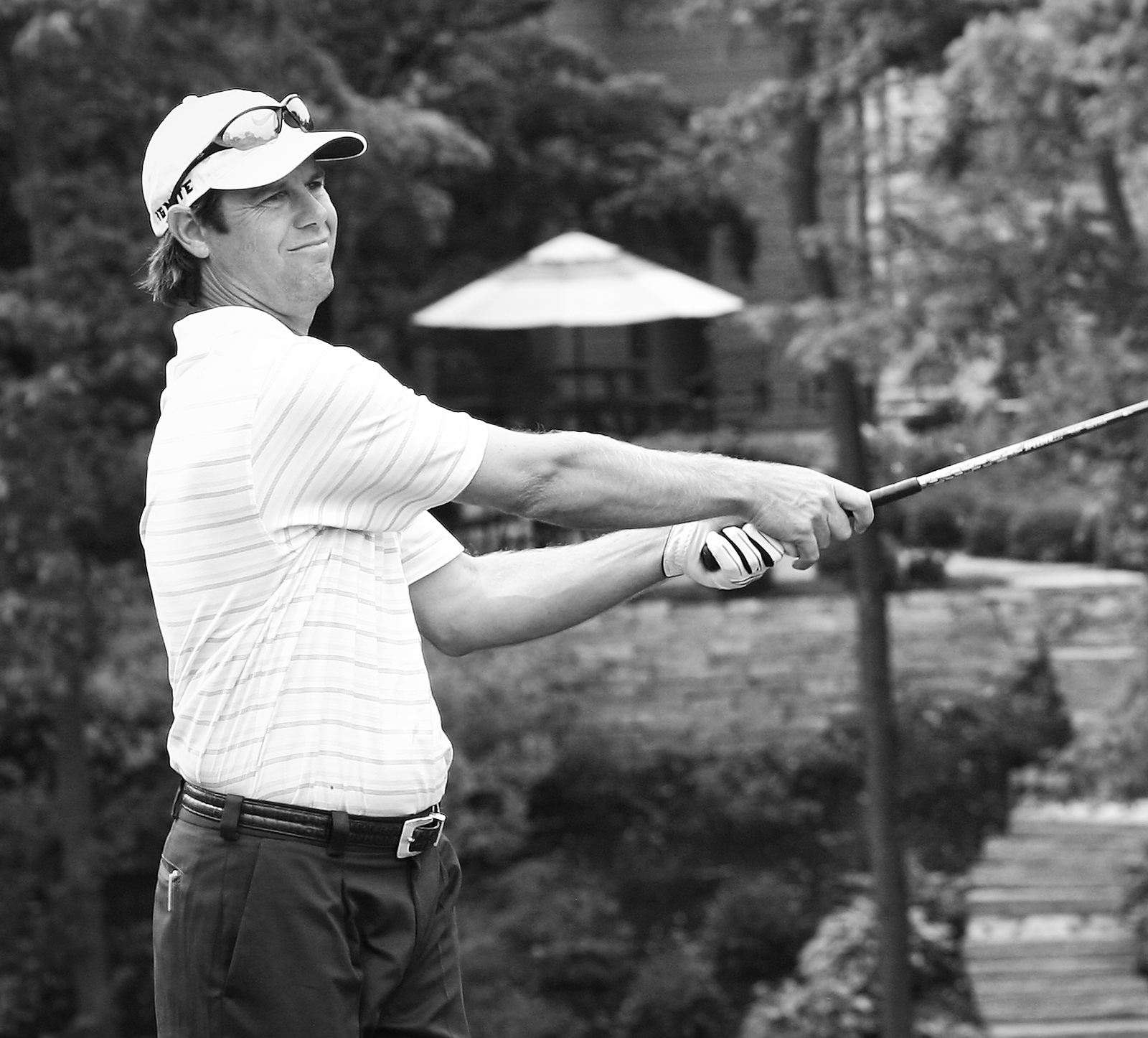 The Memorial Tournament 2005 at Muirfield Village Golf Club in Dublin, Ohio.